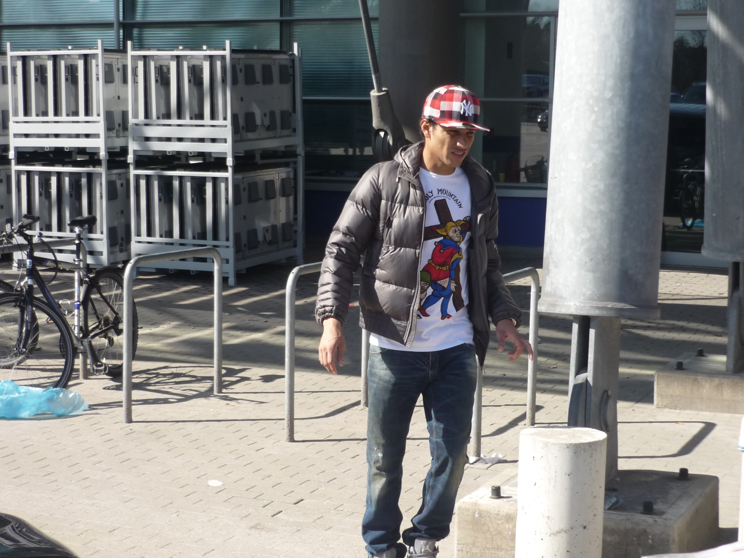 Paolo Guerrero outside the Imtech Arena in Hamburg, Germany